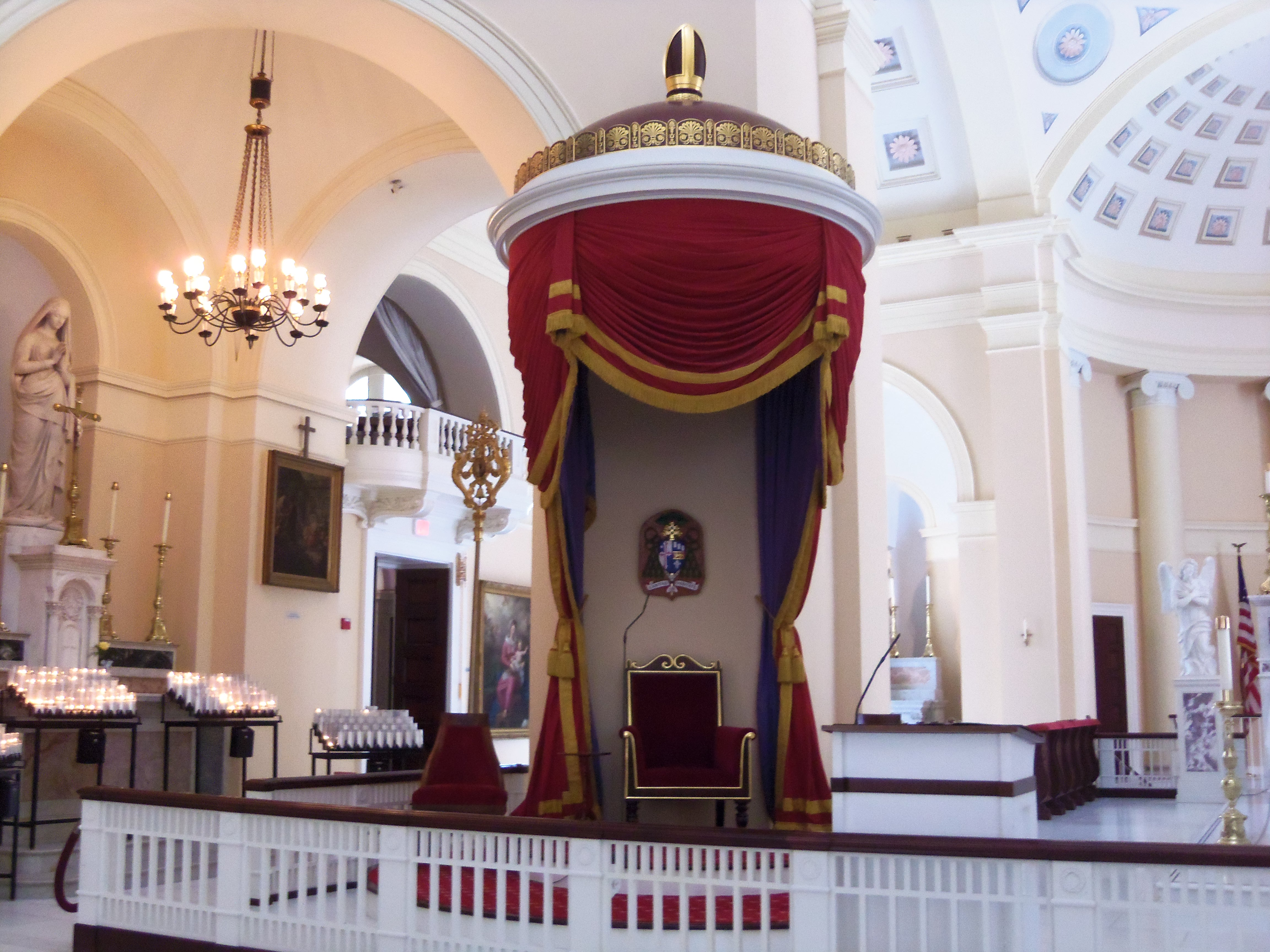 The cathedra in the Basilica of the National Shrine of the Assumption of the Blessed Virgin Mary. It is the co-cathedral of the Archdiocese of Baltimore.